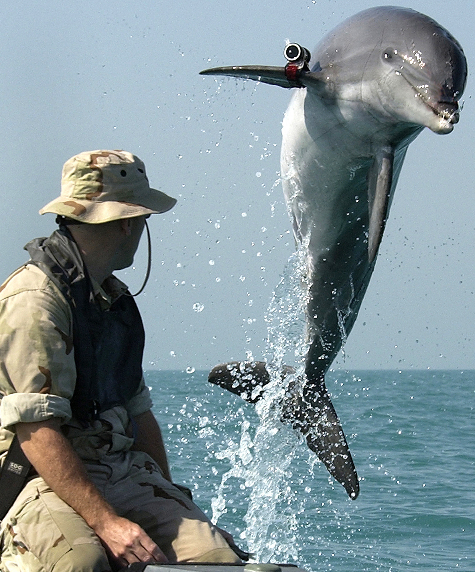 Bottlenose dolphin (Tursiops truncatus) of the NMMP on mineclearance operations, with locator beacon. K-Dog, a bottle-nose dolphin belonging to Commander Task Unit (CTU) 55.4.3, leaps out of the water in front of Sgt. Andrew Garrett while training near the USS Gunston Hall (LSD 44) in the Persian Gulf. Attached to the dolphin's pectoral fin is a "pinger" device that allows the handler to keep track of the dolphin when out of sight. CTU-55.4.3 is a multi-national team consisting of Naval Special Clearance Team-One, Fleet Diving Unit Three from the United Kingdom, Clearance Dive Team from Australia, and Explosive Ordnance Disposal Mobile Units Six and Eight (EODMU-6 and -8). These units are conducting deep/shallow water mine countermeasure operations to clear shipping lanes.